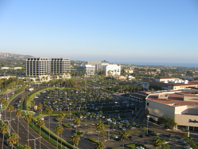 Picture of Fashion Island and Newport Beach taken from the Four Seasons hotel.